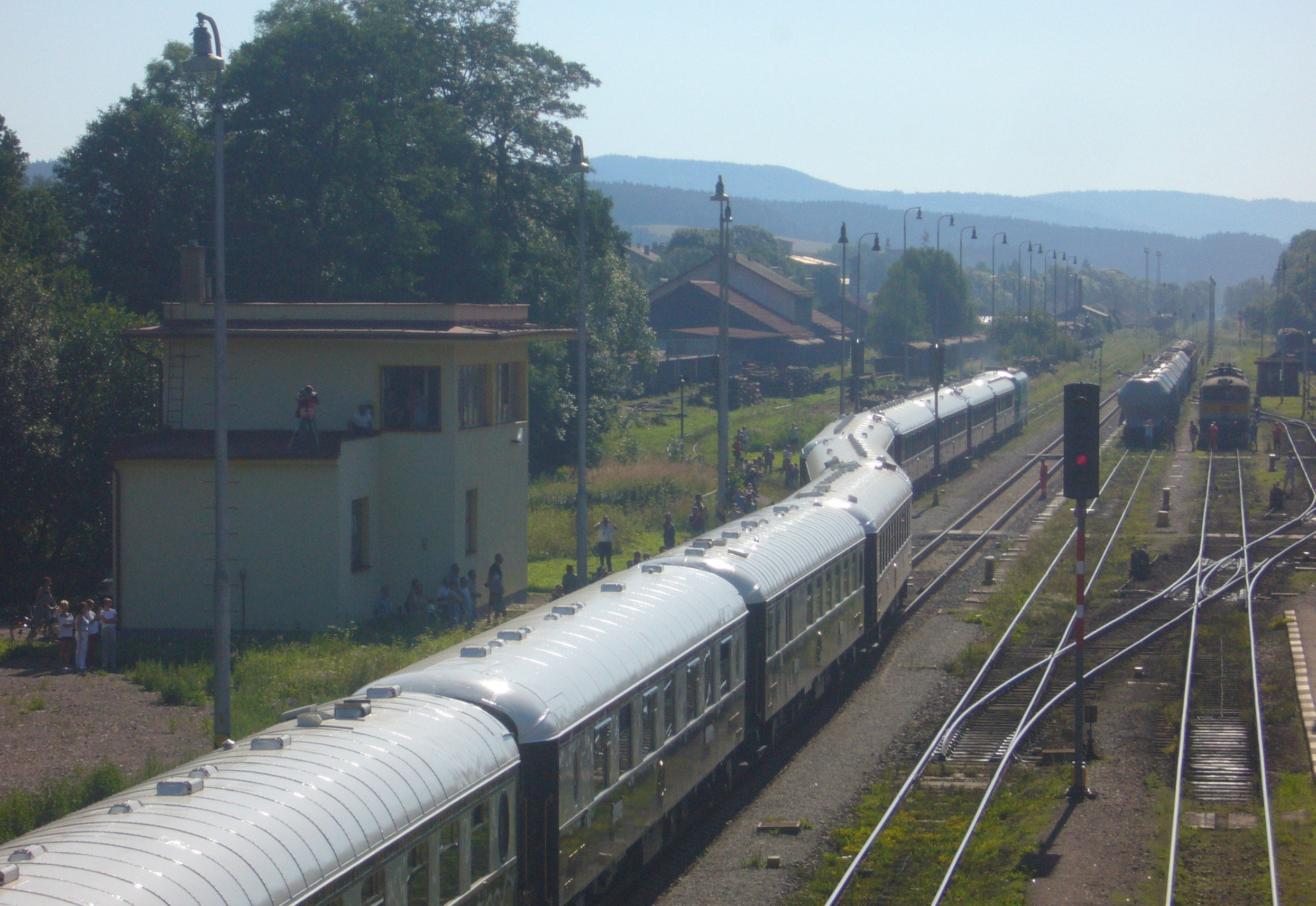 Venice-Simplon Orient Express in the Czech Republic, Meziměstí (railway line 026), route Venice – Wien – Banská Bystrica – Kraków – Warszawa – Malbork – Wrocław – Prague.